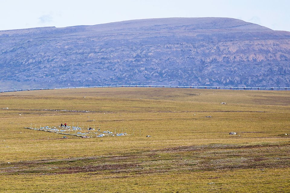 Toolik Lake Research Natural Area, Alaska Toolik Lake RNA was designated in 1990 as an Area of Critical Concern (ACEC) to protect a natural lake and tundra biome in the foothills of the Brook Range on Alaska's North Slope. The Toolik Lake area has been extensively used for arctic natural resources research since the 1970s. Today researchers come from all over the world to conduct cutting-edge research in all aspects of arctic biology, geology, chemistry, and more. The Toolik Field Station, located within the ACEC and operated by the University of Alaska, provides researchers with lodging, laboratories, and logistical support. Photos by Craig McCaa, BLM